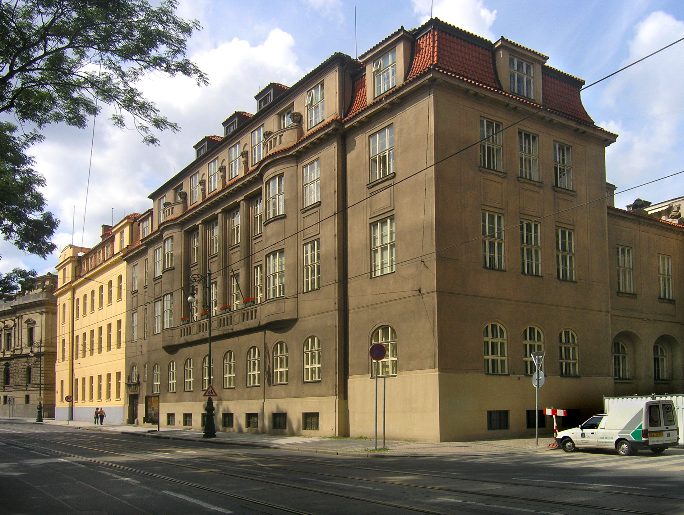 Faculty of Nuclear Sciences and Physical Engineering at 17. listopadu street in Old Town, Prague